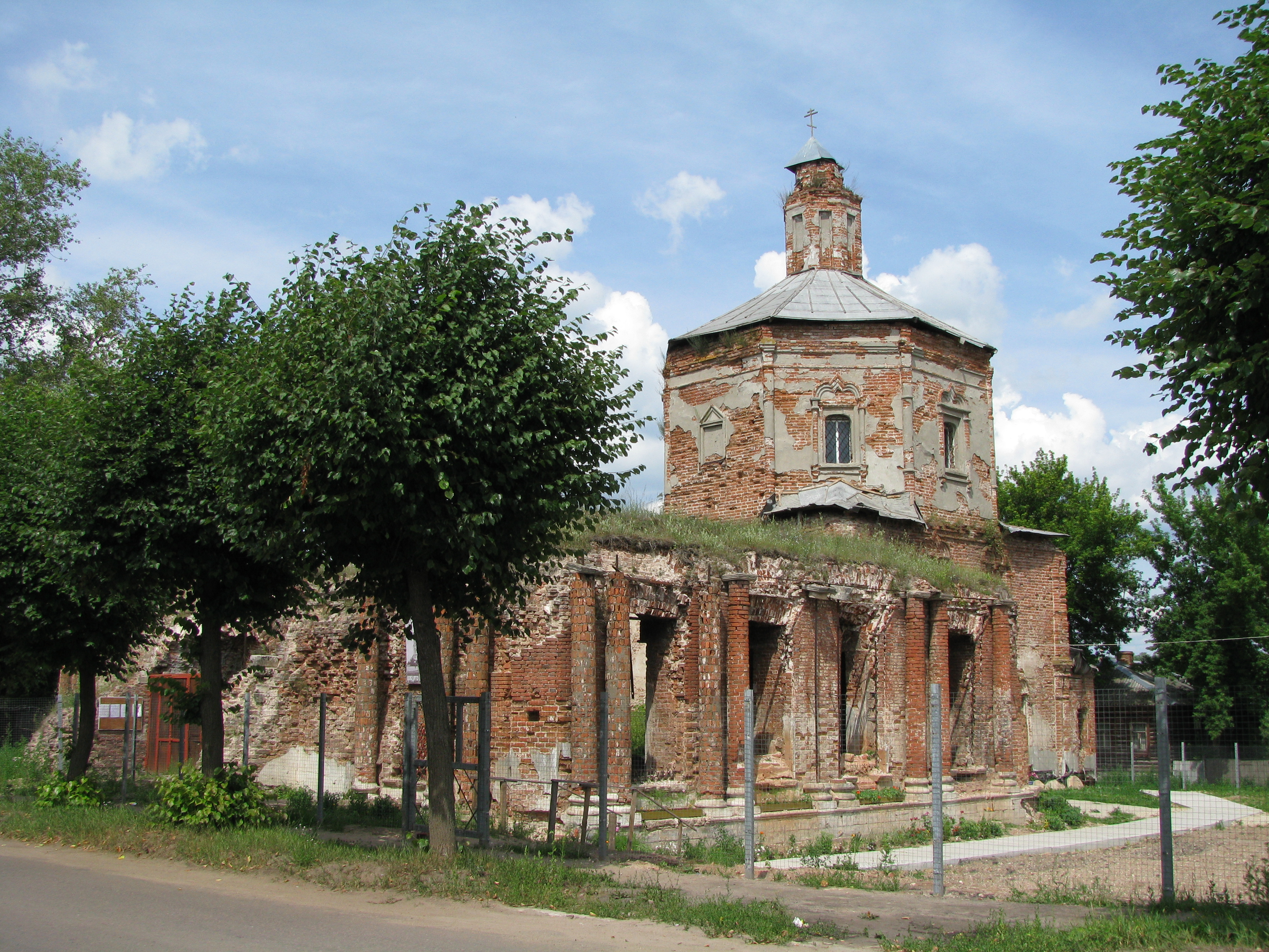 Serpukhov_Church_Sretenija_Gospodnja (XVIII). Federal Landmark